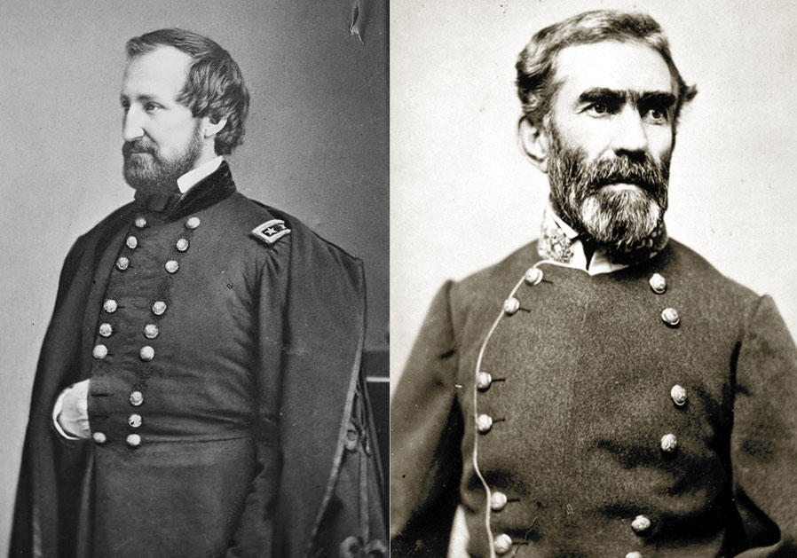 Photo montage by Hal Jespersen of two public domain photographs of William Rosecrans and Braxton Bragg for the Battle of Chickamauga.